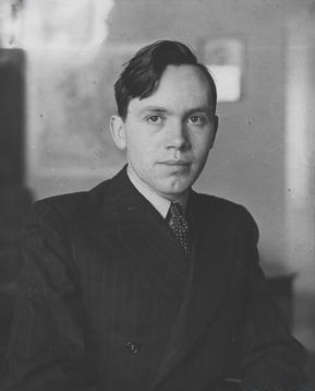 Stanisław Piętak (1909-1964) - a Polish writer.